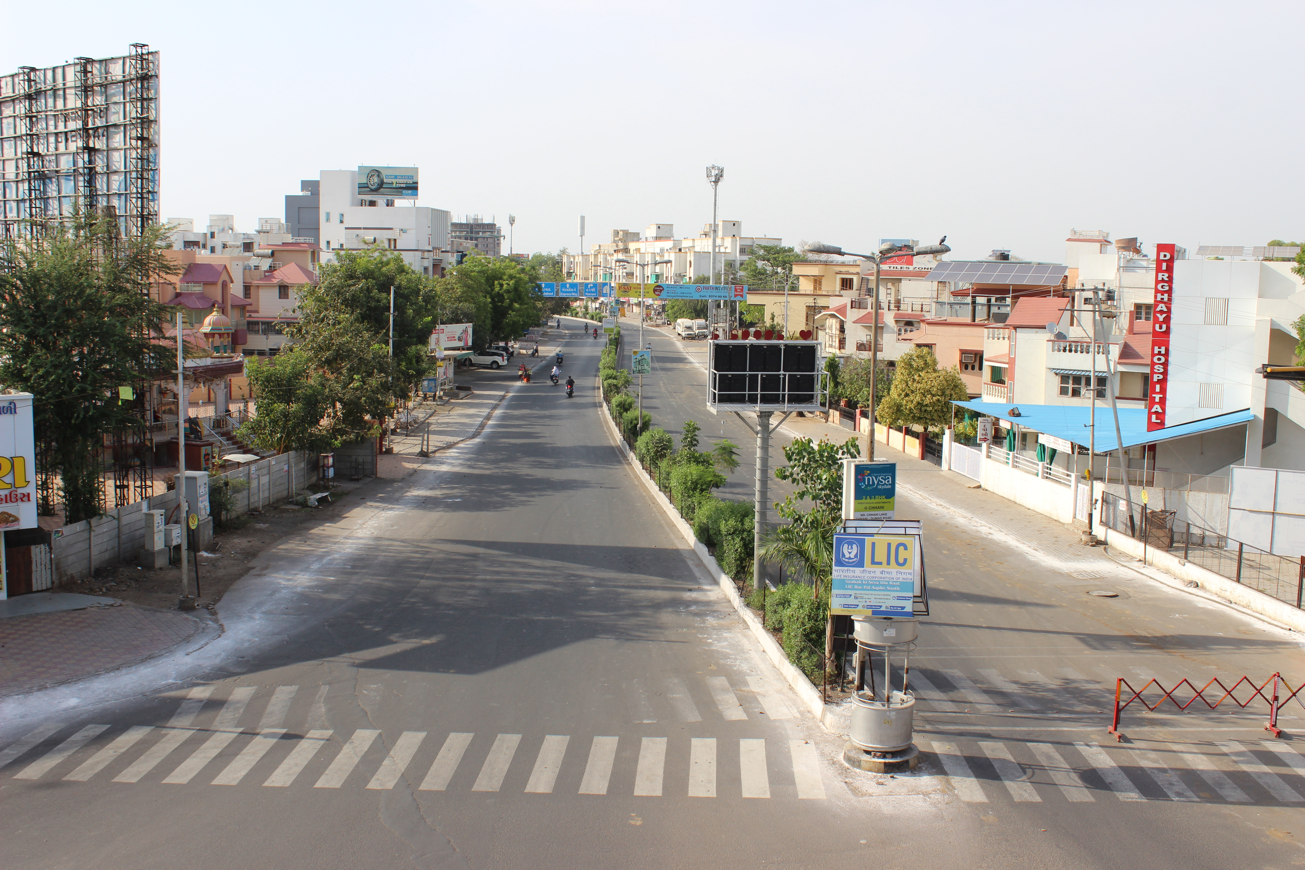 Lockdown Vadodara during Pandemic Corona 2020